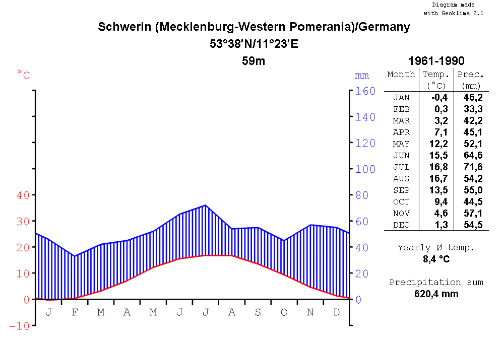 climate chart of Schwerin, Mecklenburg-Western Pomerania, Germany, for the period of time from 1961 to 1990, in the format by Walter and Lieth, metric, °Celsius and millimeters, chart made with Geoklima 2.1, label in English